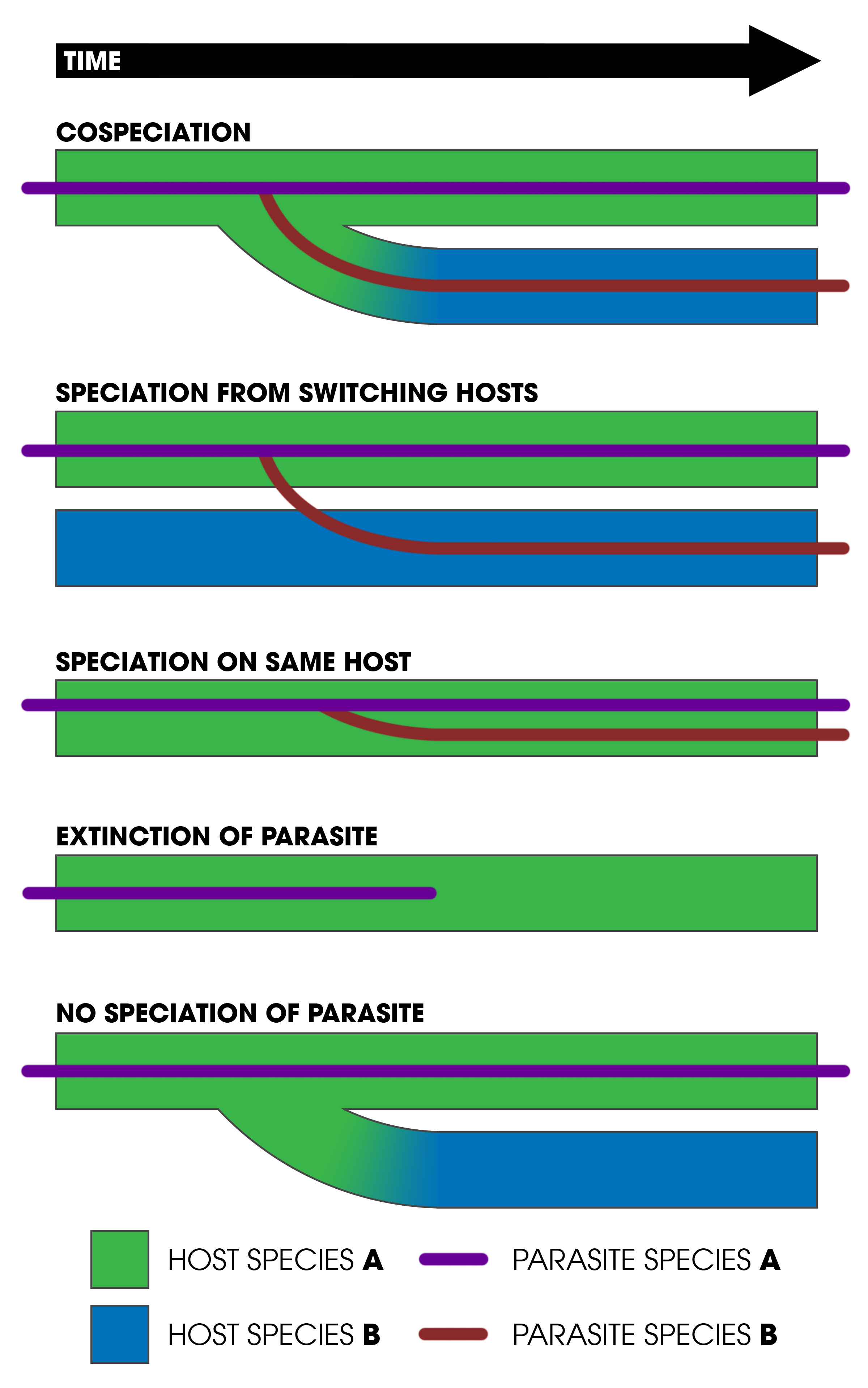 The five processes of host-parasite associations in which speciation occurs or does not occur. From top to bottom: Cospeciation occurs when both the host and parasite speciate concurrently Speciation occurs by the parasite switching hosts and evolves in reproductive isolation The parasite speciates on the same host due to another factor unrelated to the host The parasite goes extinct on a host The host speciates but the parasite does not end up reproductively isolated (in this case, the parasite may end up on both species, not shown in picture)